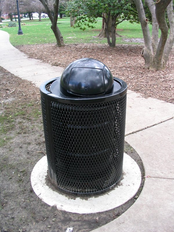 Trash can Source: Image taken by Dori License: Public Domain